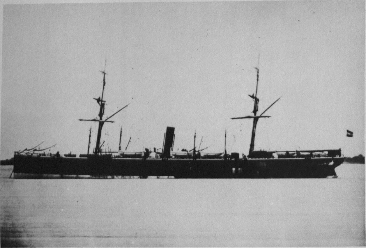 Ship the "Silesia" (years in service 1869-1887) Germany-West Indies service.